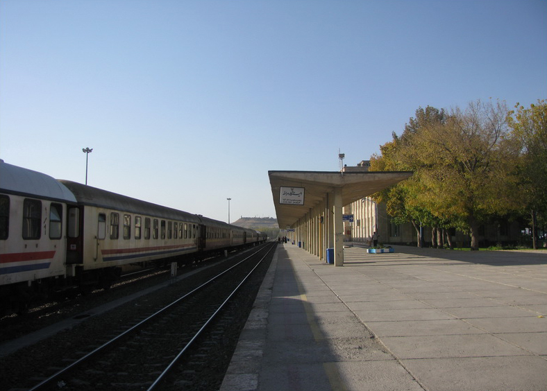 railway in Maragheh